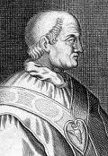 A lithograph of Pope Lando, made before 1923